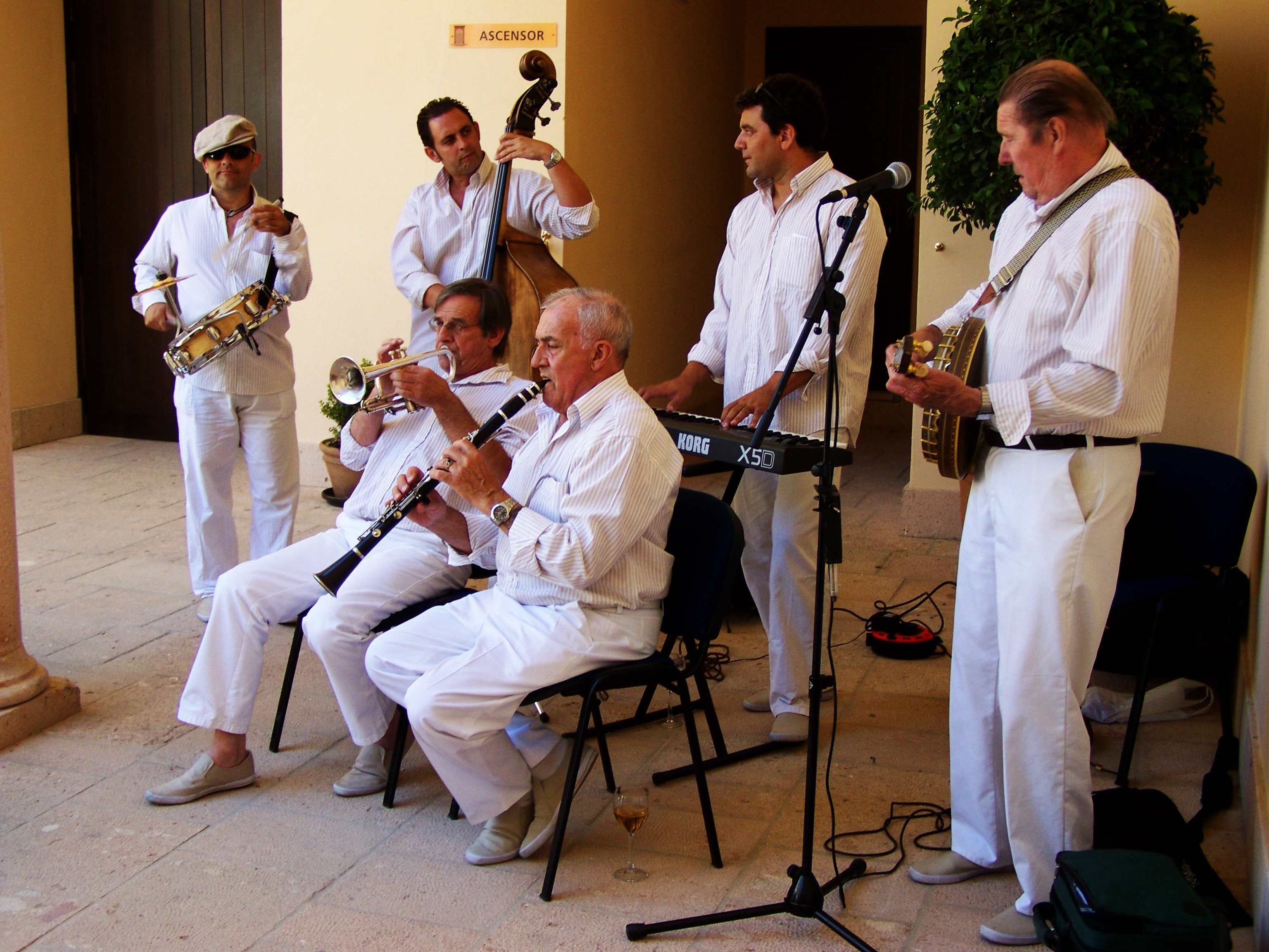 Musicians in Ronda, Spain.